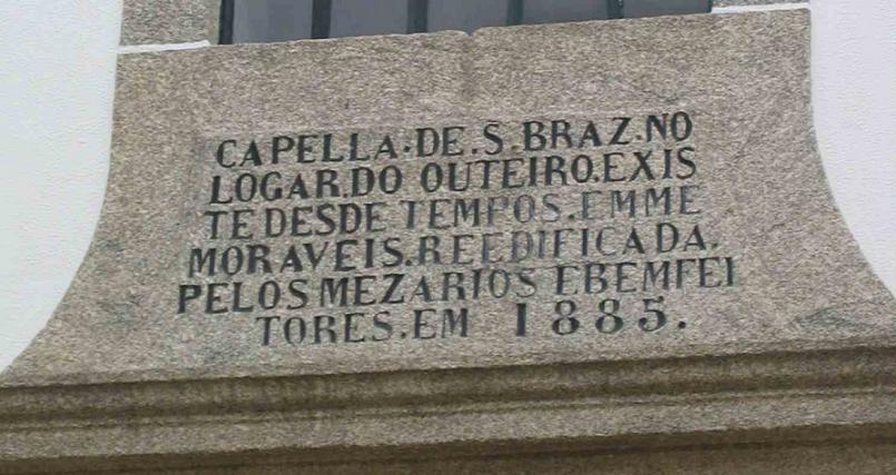 Church of Baguim do Monte